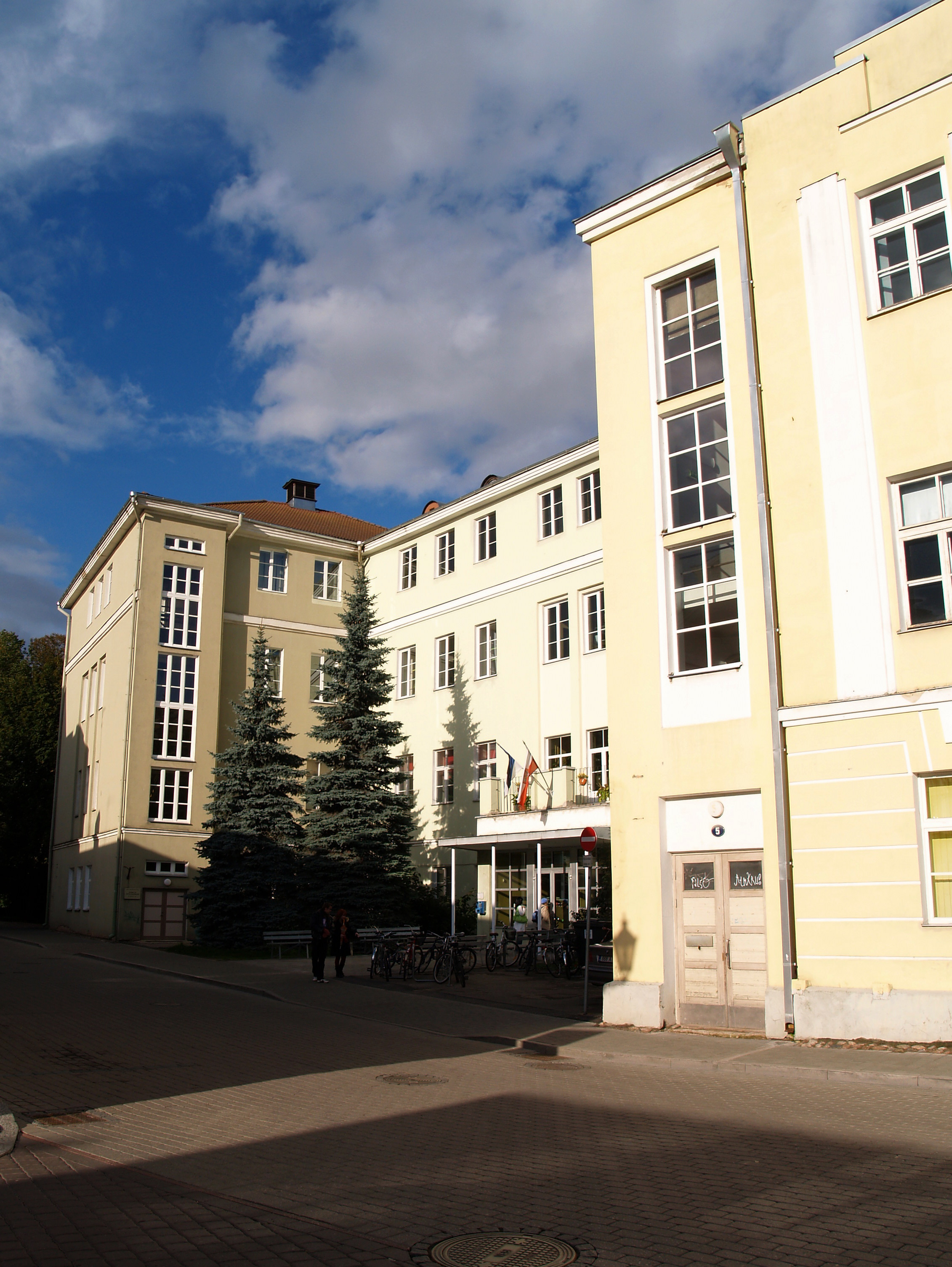 Tartu Public Library